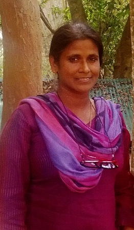 C.S.Chandrika is a novelist, story writer, and by profession she is a scientist at M.S.Swaminadhan foundation research centre in Waynad district.